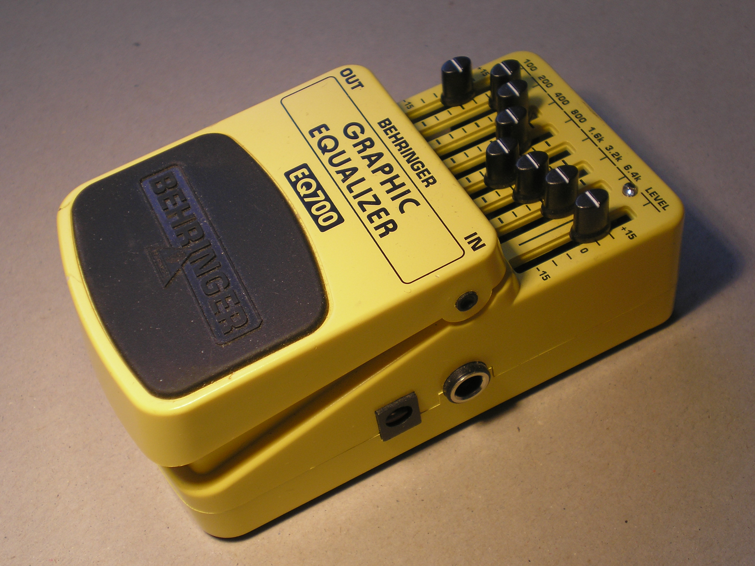 Behringer EQ700 graphic equalizer.